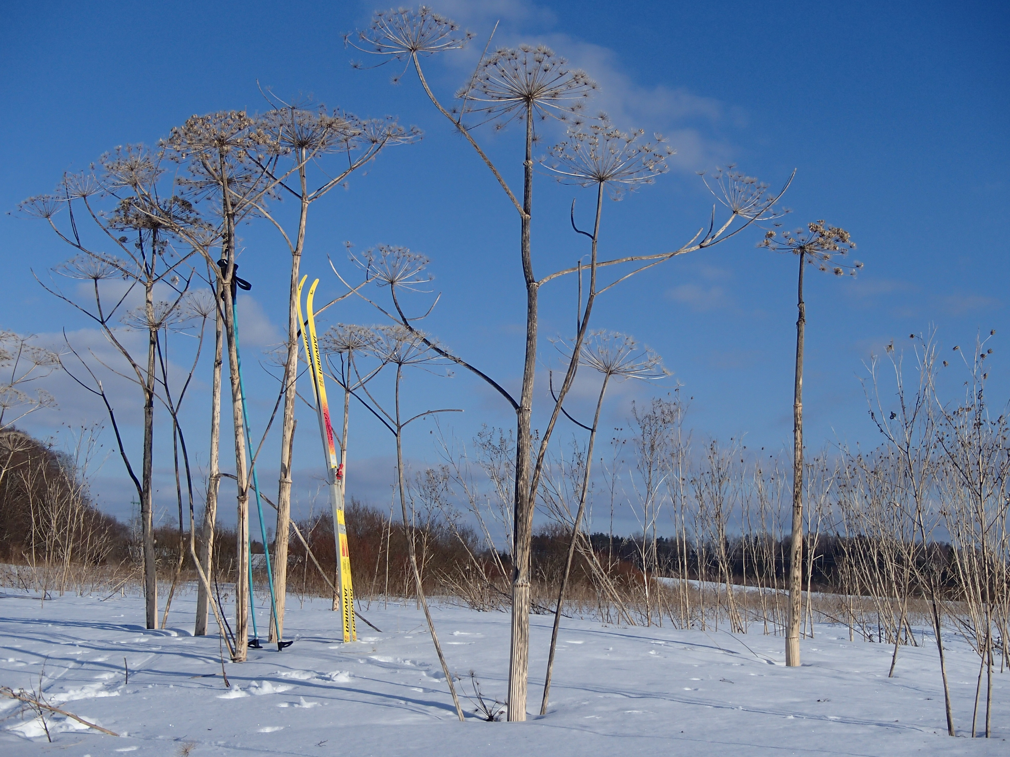 Heracleum sosnowskyi in winter, size compared to skies